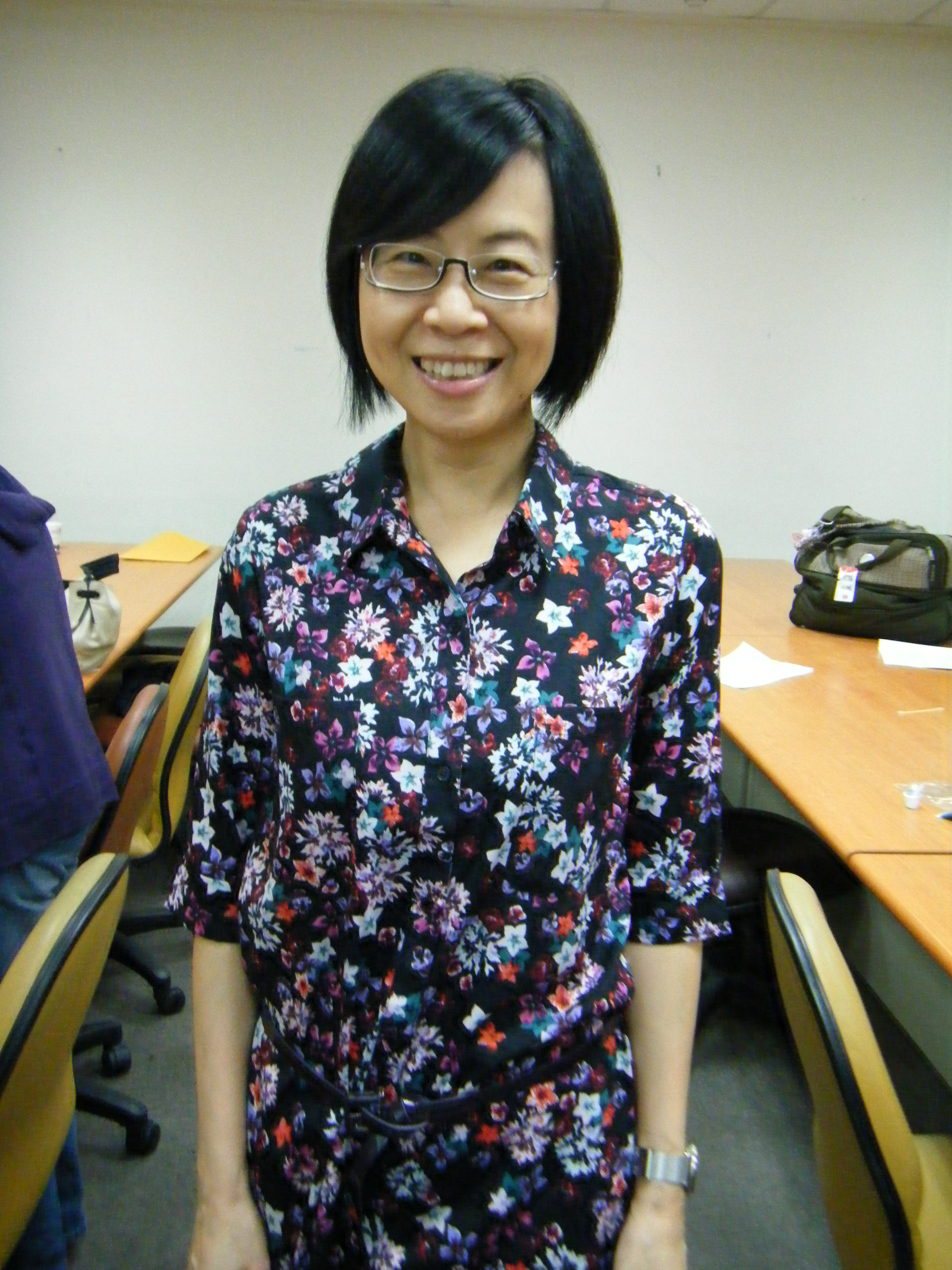 Photograph of Professor Ching-Chi Chu, Physics, National Central University, Chungli, TAIWAN